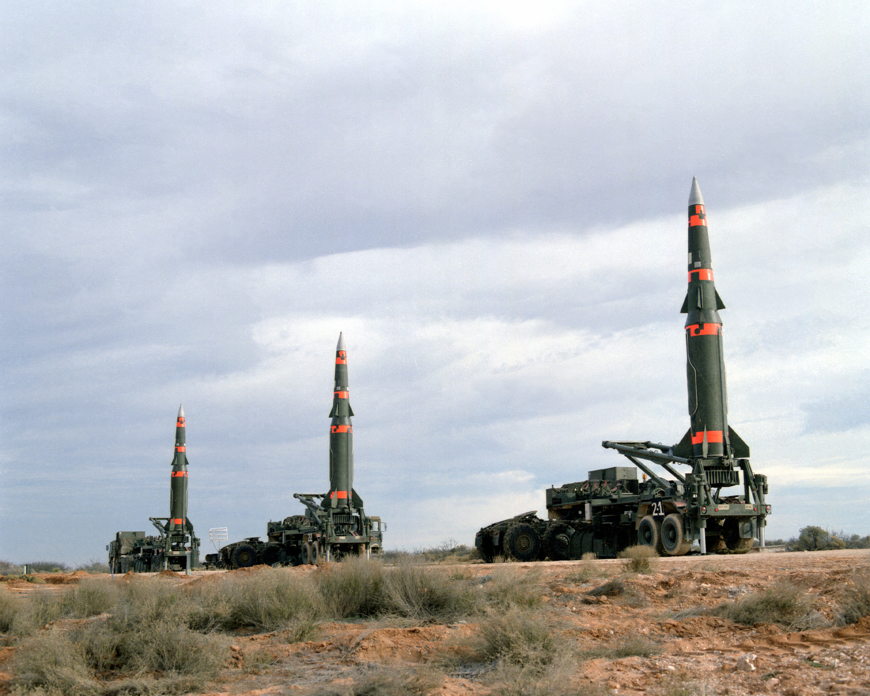 Several Pershing II missiles are prepared for launching at Fort Bliss McGregor Range, 12/01/1987